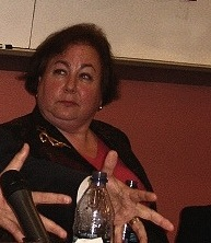 New York State Senator Liz Krueger. This file has been extracted from another file: Liz Krueger.jpg